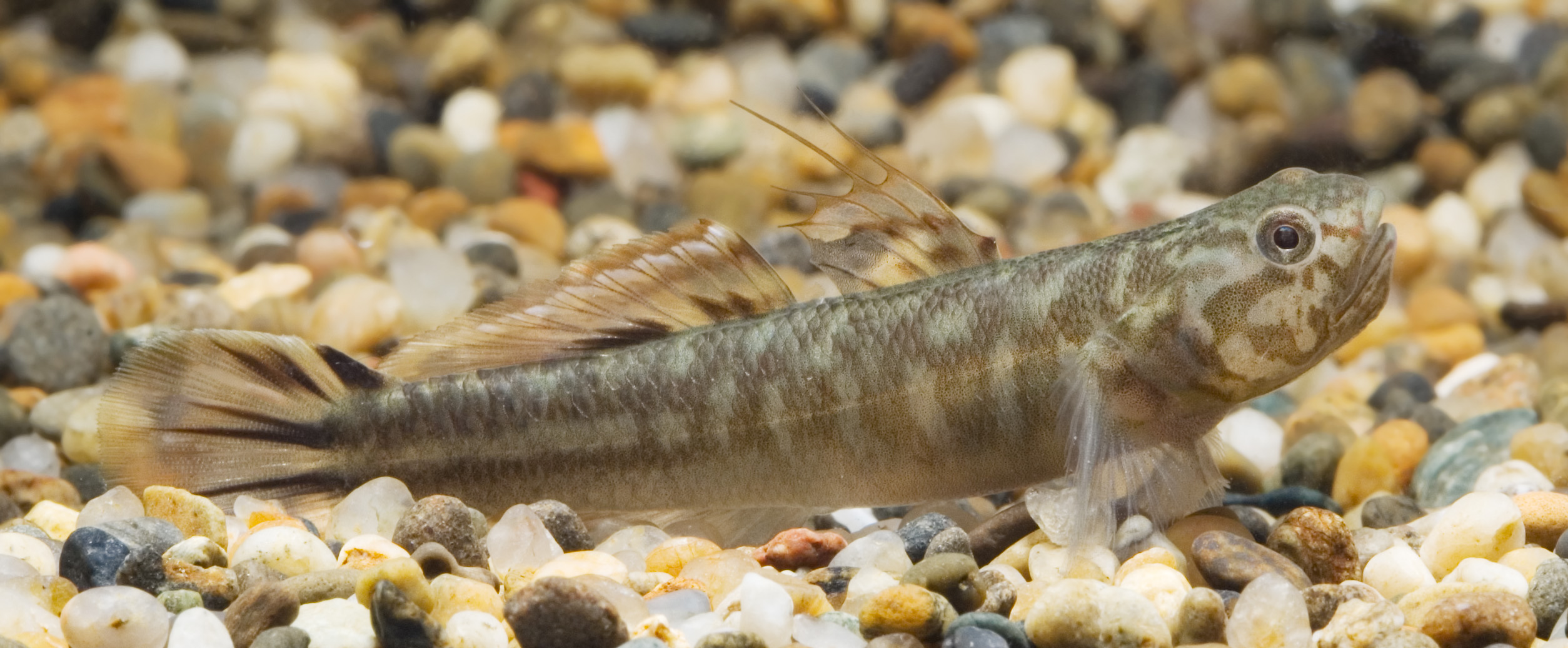 Abehaze, Mugilogobius abei